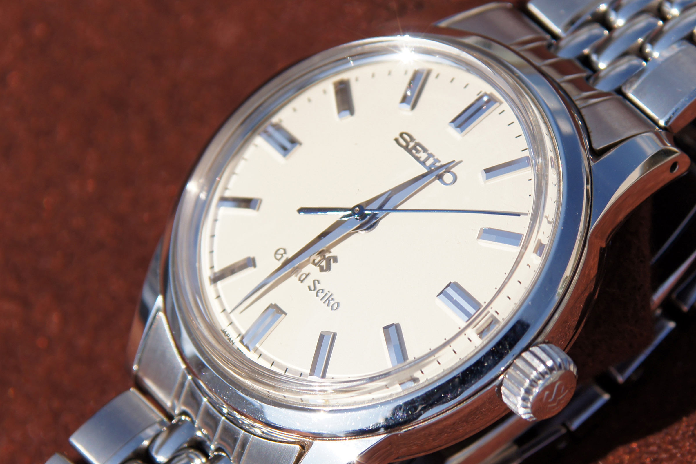 Grand Seiko SBGW005 9S54-0030